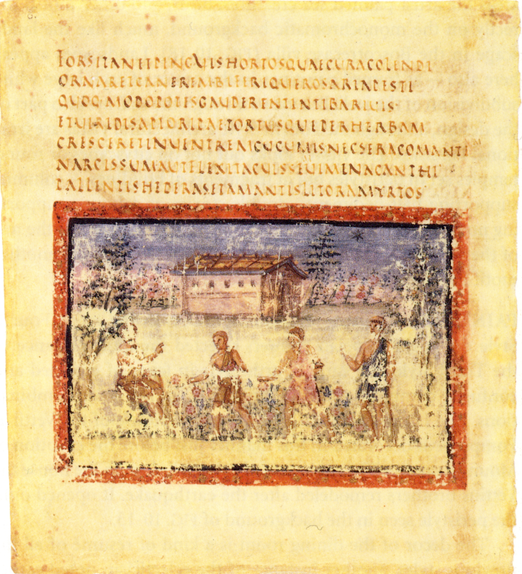 "Old farmer of Corycus", folio 7 verso of the Roman Vergil. Tempera on parchment. In the collection of the Biblioteca Apostolica Vaticana.